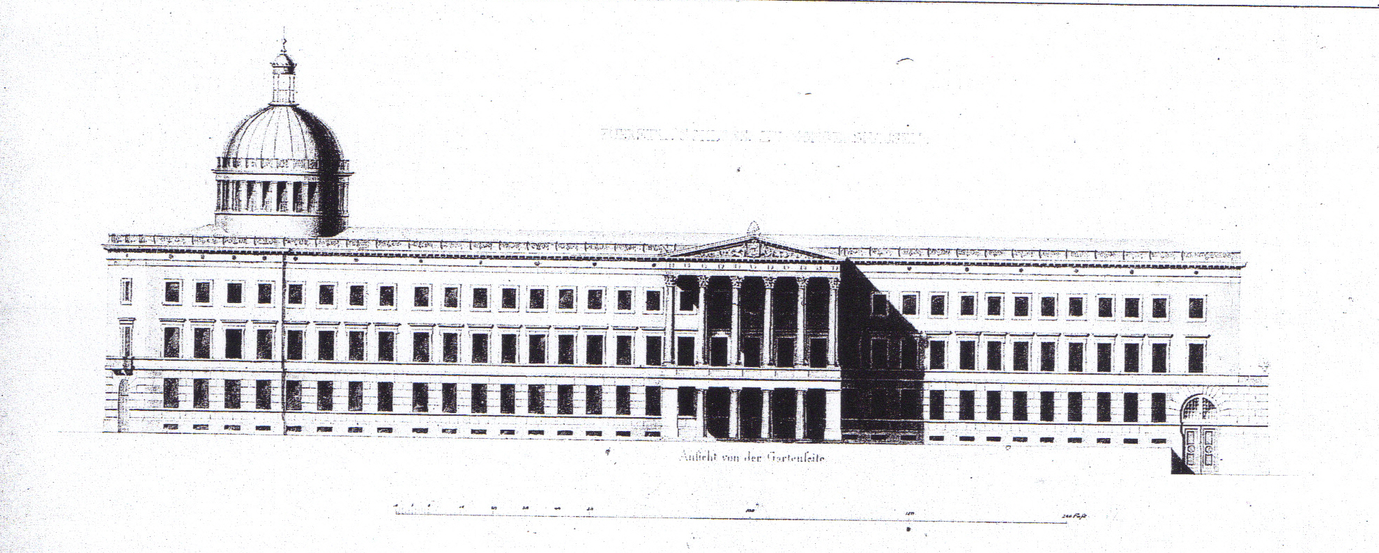 castle Sondershausen, west, blueprint